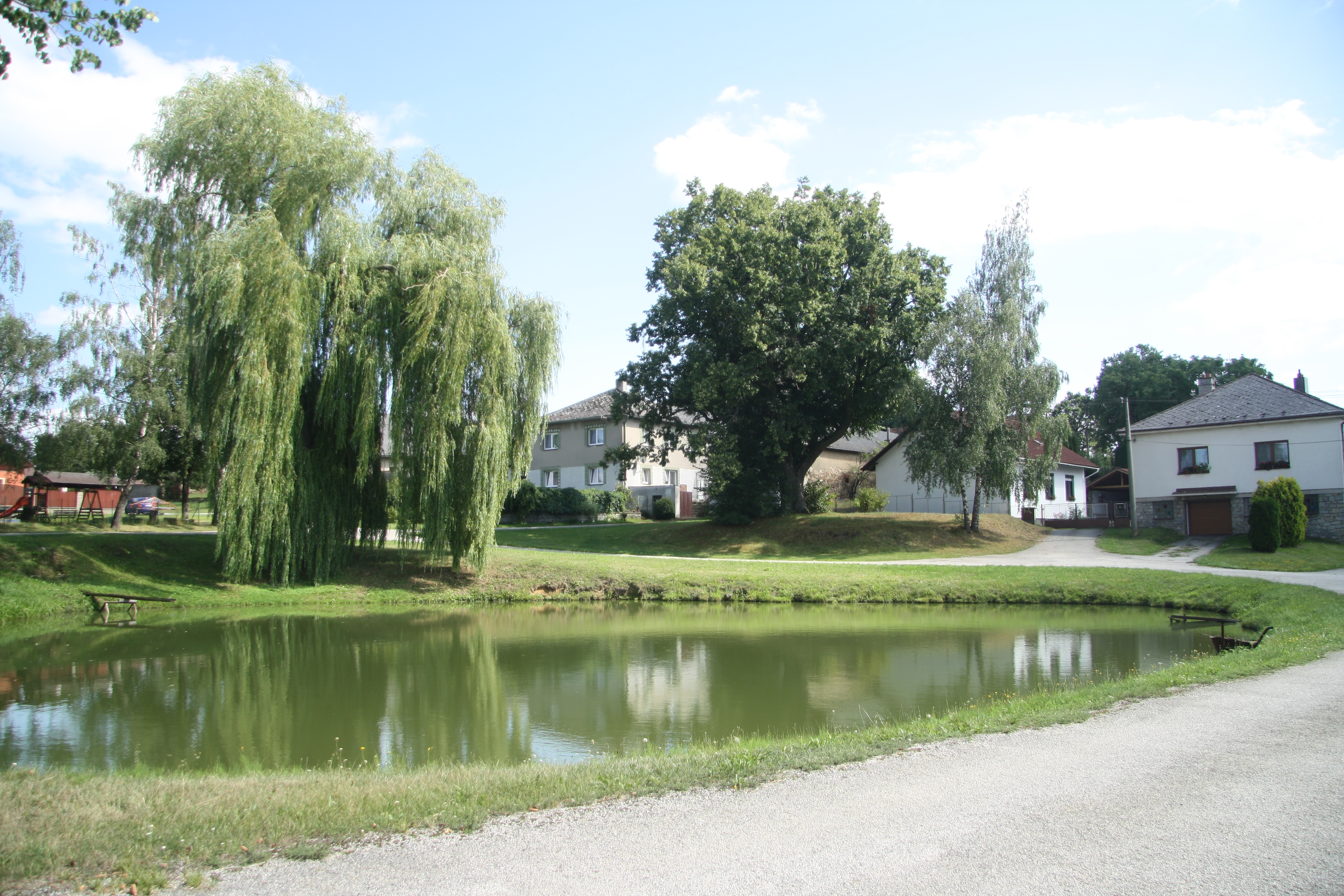 Center of Studénka, Štoky, Havlíčkův Brod District.